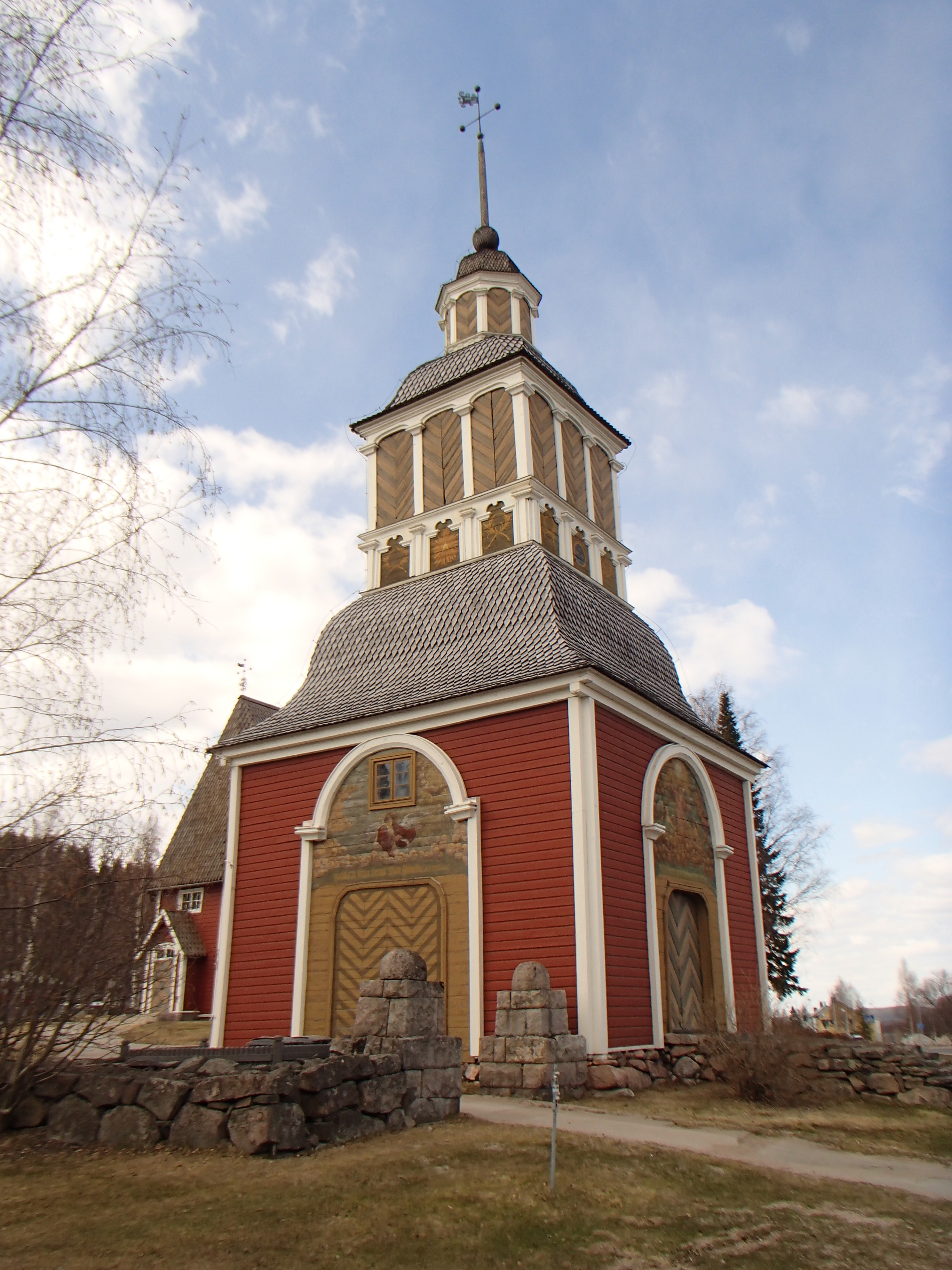 Buildings of "Övertorneå kyrka" at Kyrkogatan 1A in Övertorneå